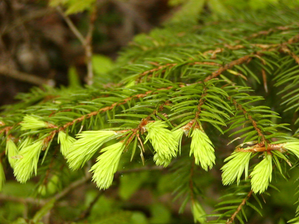 Leaves